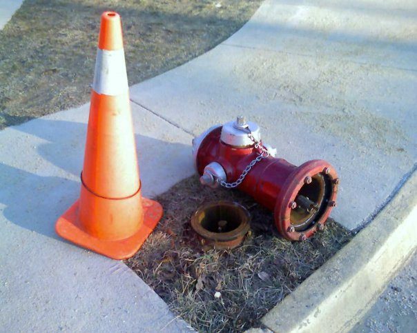 A Super Centurion fire hydrant that was hit by a snow plow and was knocked over. Note that only the easily replacable bolts were damaged.